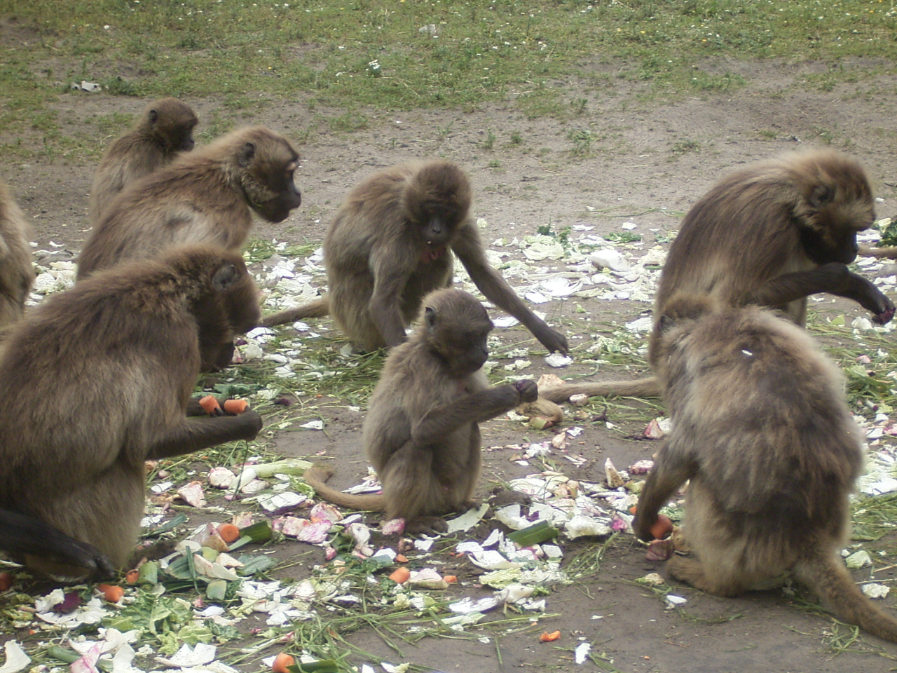 This picture shows Theropithecus gelada. My 15 year old daughter Margreet took the picture on a visit to Naturzoo Rheine im sommer 2005.